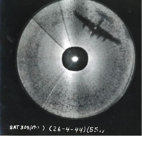 The image shows a B-17 Flying Fortress bomber as seen from another B-17's H2S display. The H2X was a ground-scanning radar used by the USAAF in the late WWII period. It was a development of the British H2S using a new magnetron that worked in the S-band rather than the X-band. This gave the H2S higher resolution, enough to make a clear image of an aircraft in this case.